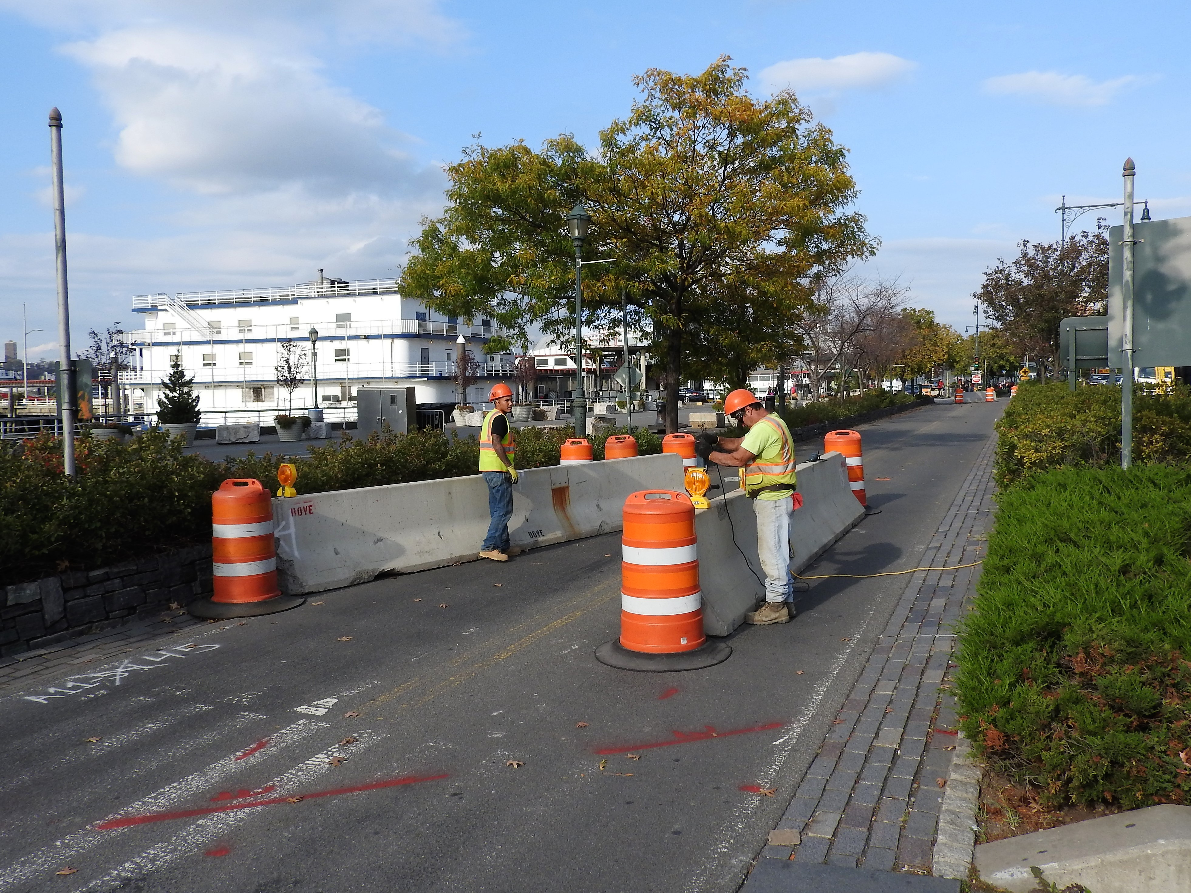 Looking north at installation work after terrorist attack downtown